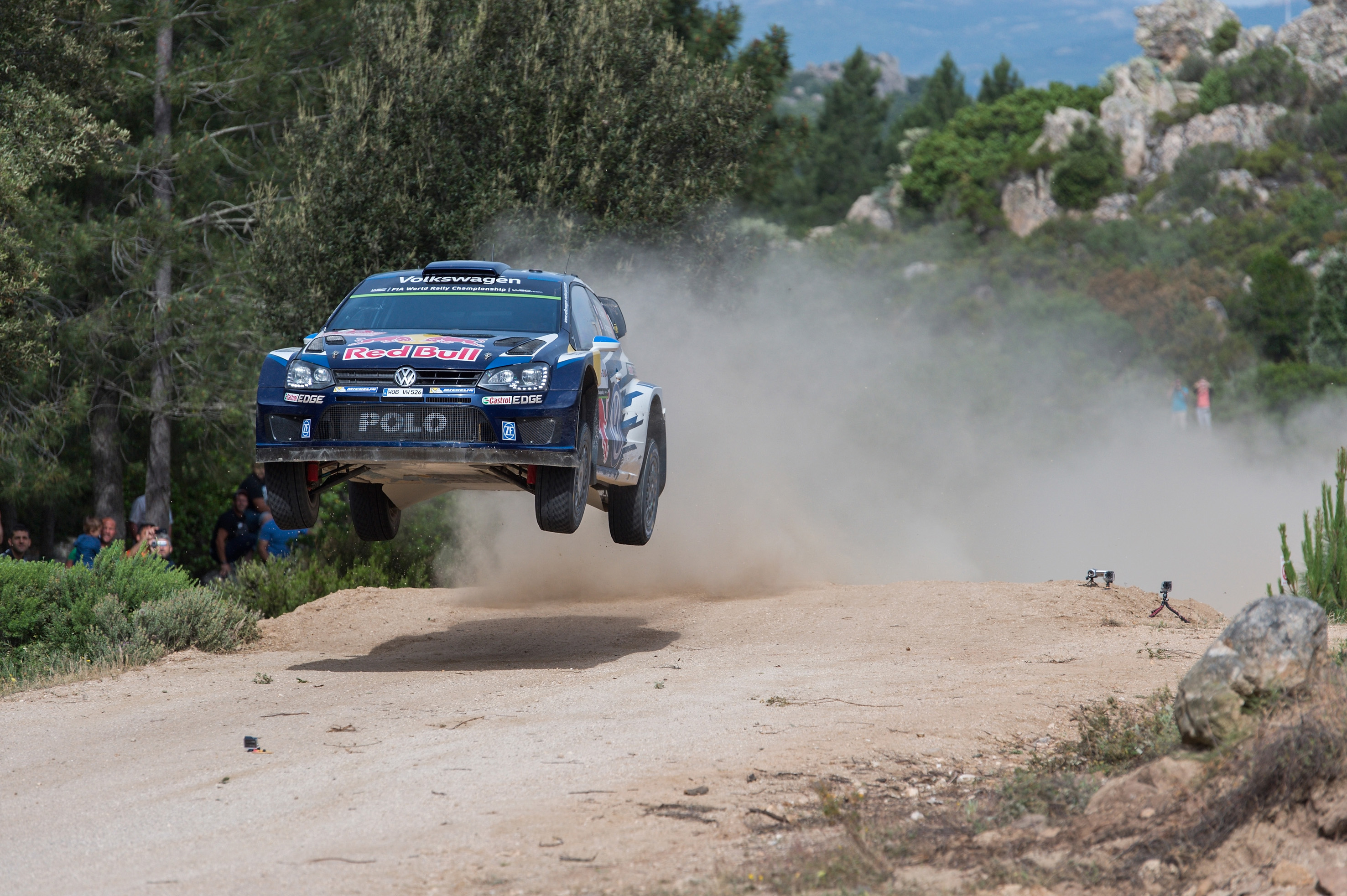 Sébastien Ogier and co-driver Julien Ingrassia in their VW Polo R WRC at the 2015 Rally d'Italia Sardegna.